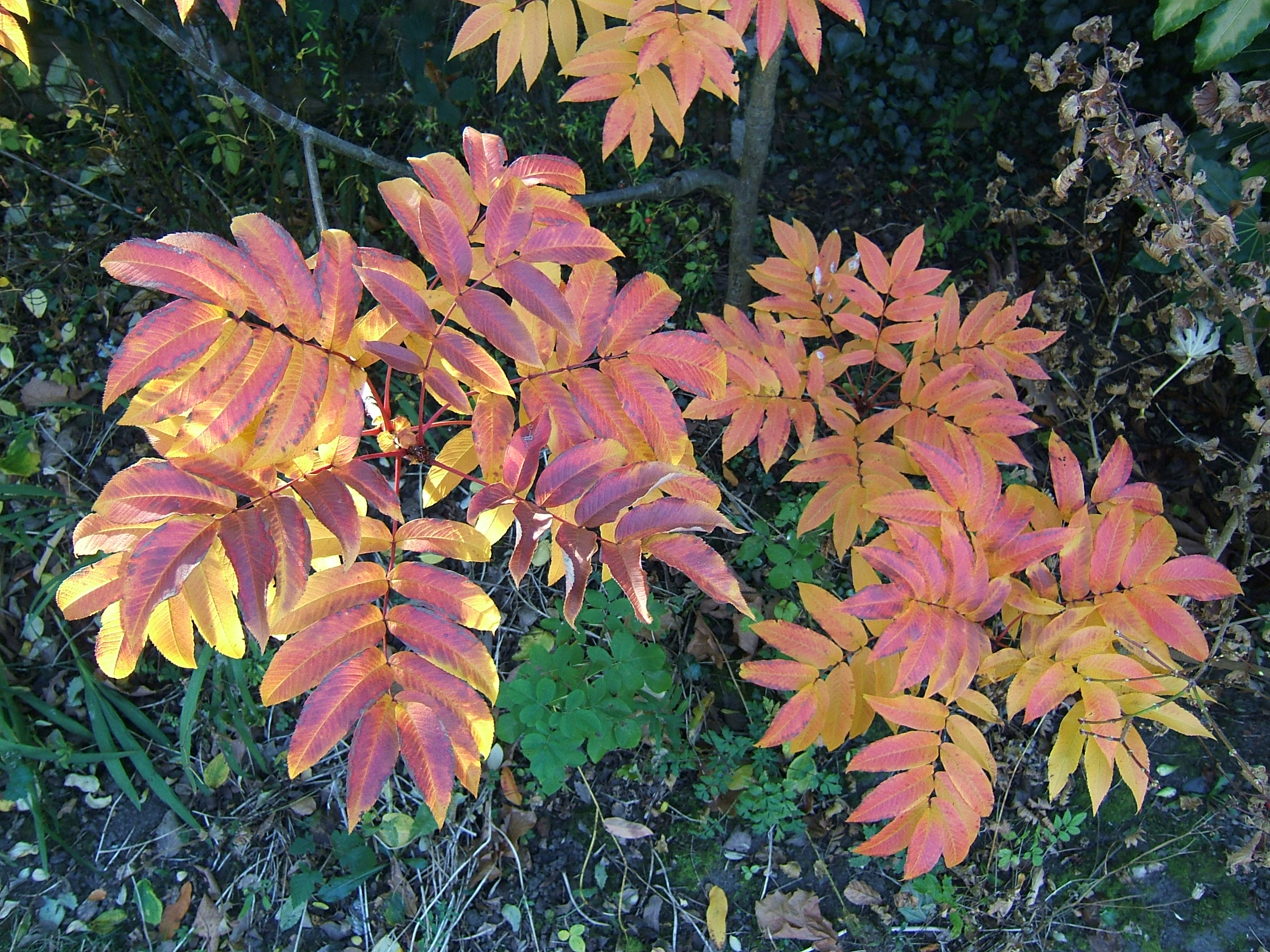 Sorbus sargentiana (Sargent's Rowan), autumn colour, cultivated, Newcastle, Northumberland, UK